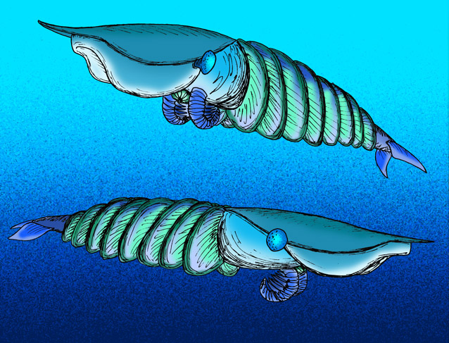 Reconstruction of a pair of the middle Cambrian anomalocaridid Hurdia victoria.